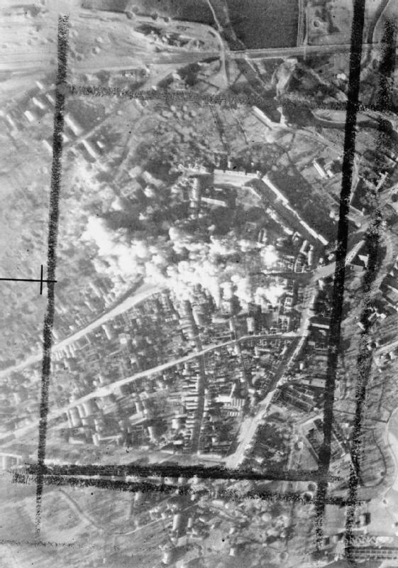 Royal Air Force- 2nd Tactical Air Force, 1943-1945. Vertical aerial photograph taken during a daylight attack on Geldern, Germany, by medium bombers of No. 2 Group, showing sticks of bombs exploding at a road junction in the town centre in order to create choke points for German troops and supplies attempting to pass through.